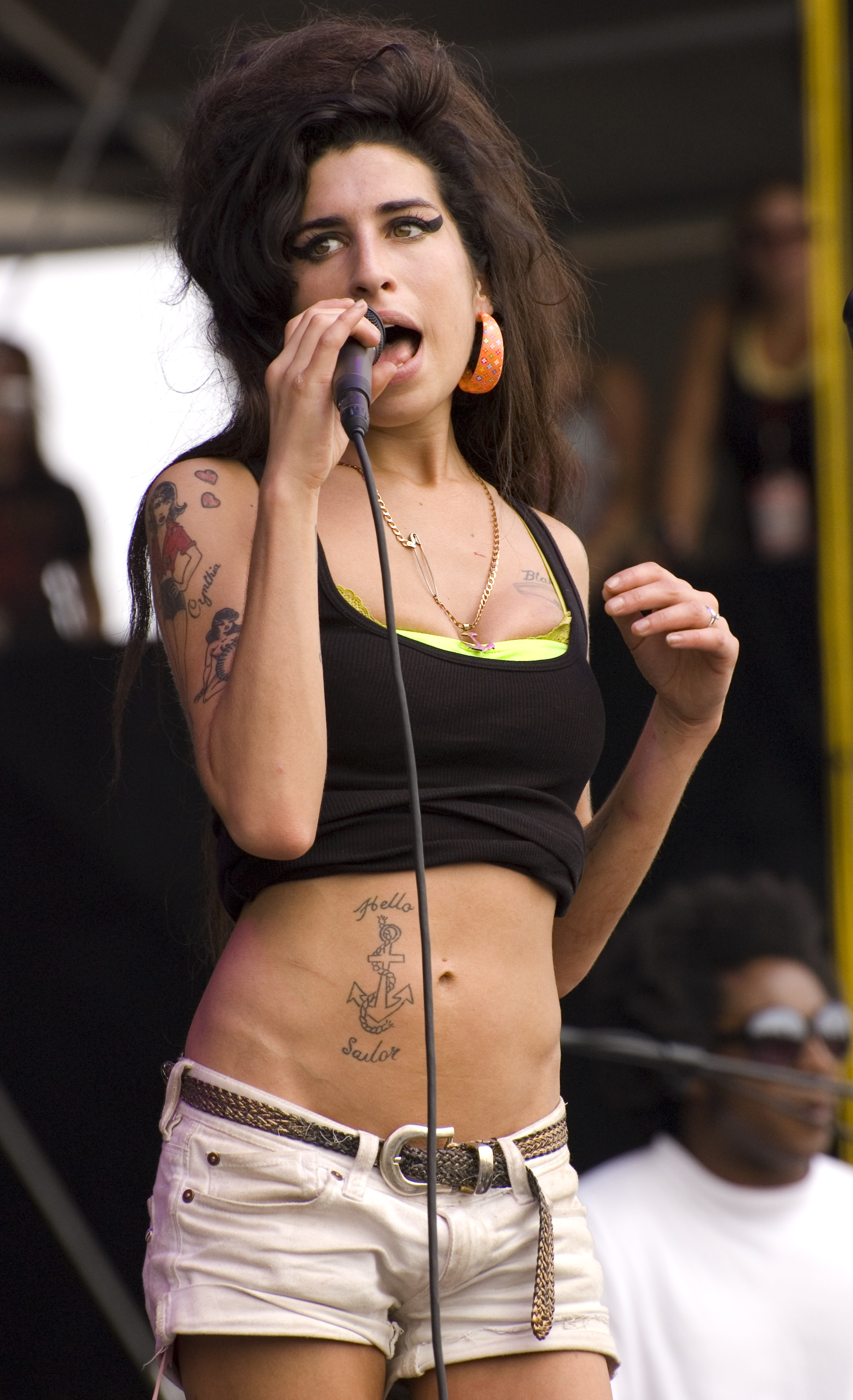 Amy Winehouse singing at the Virgin Festival, Pimlico, Baltimore, Maryland, USA on 4 August 2007.